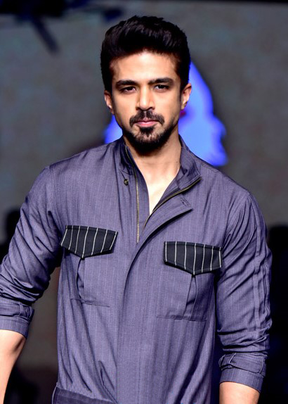 Saqib Saleem walks the ramp at the Lakme Fashion Week 2018.